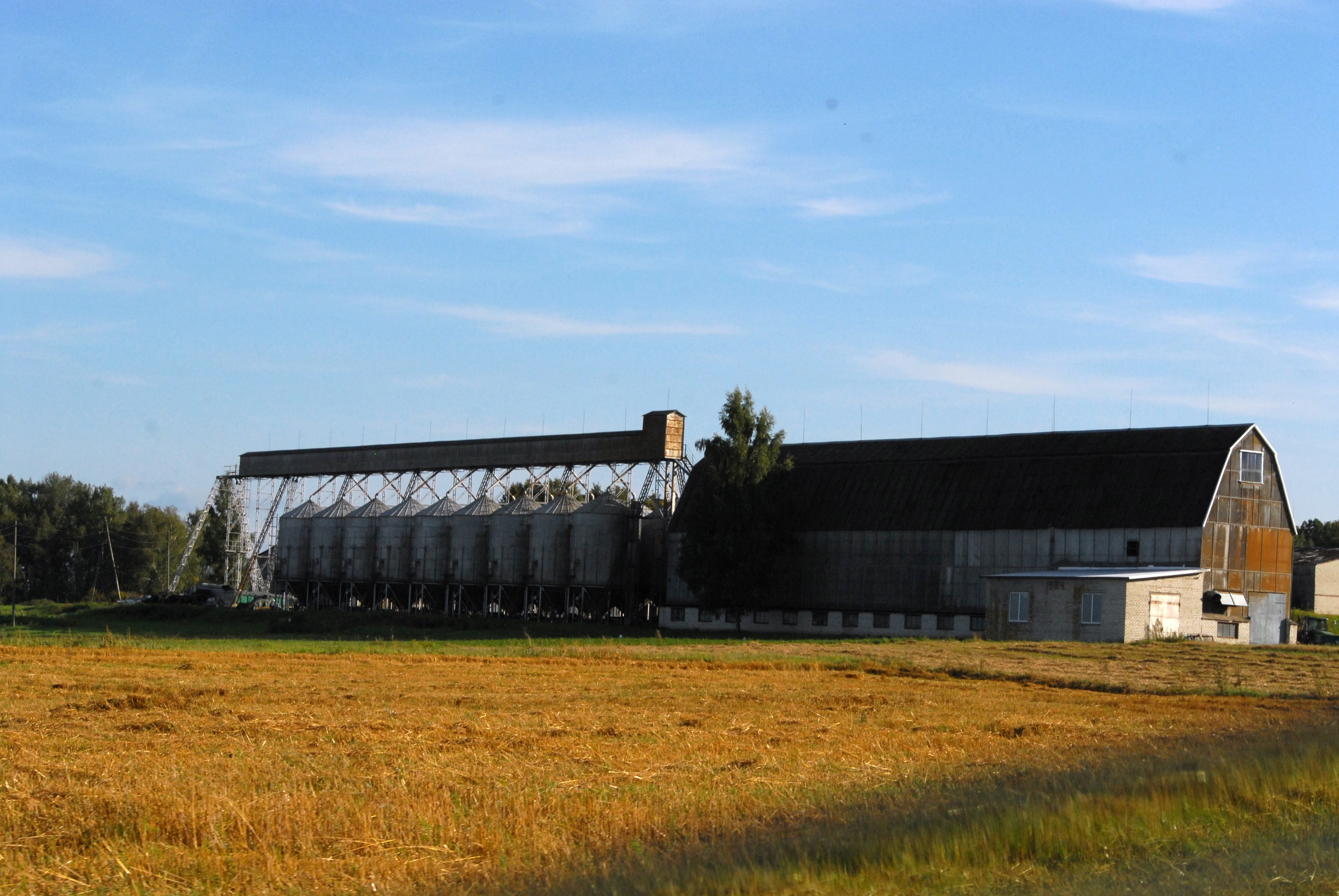 Priekule Municipality